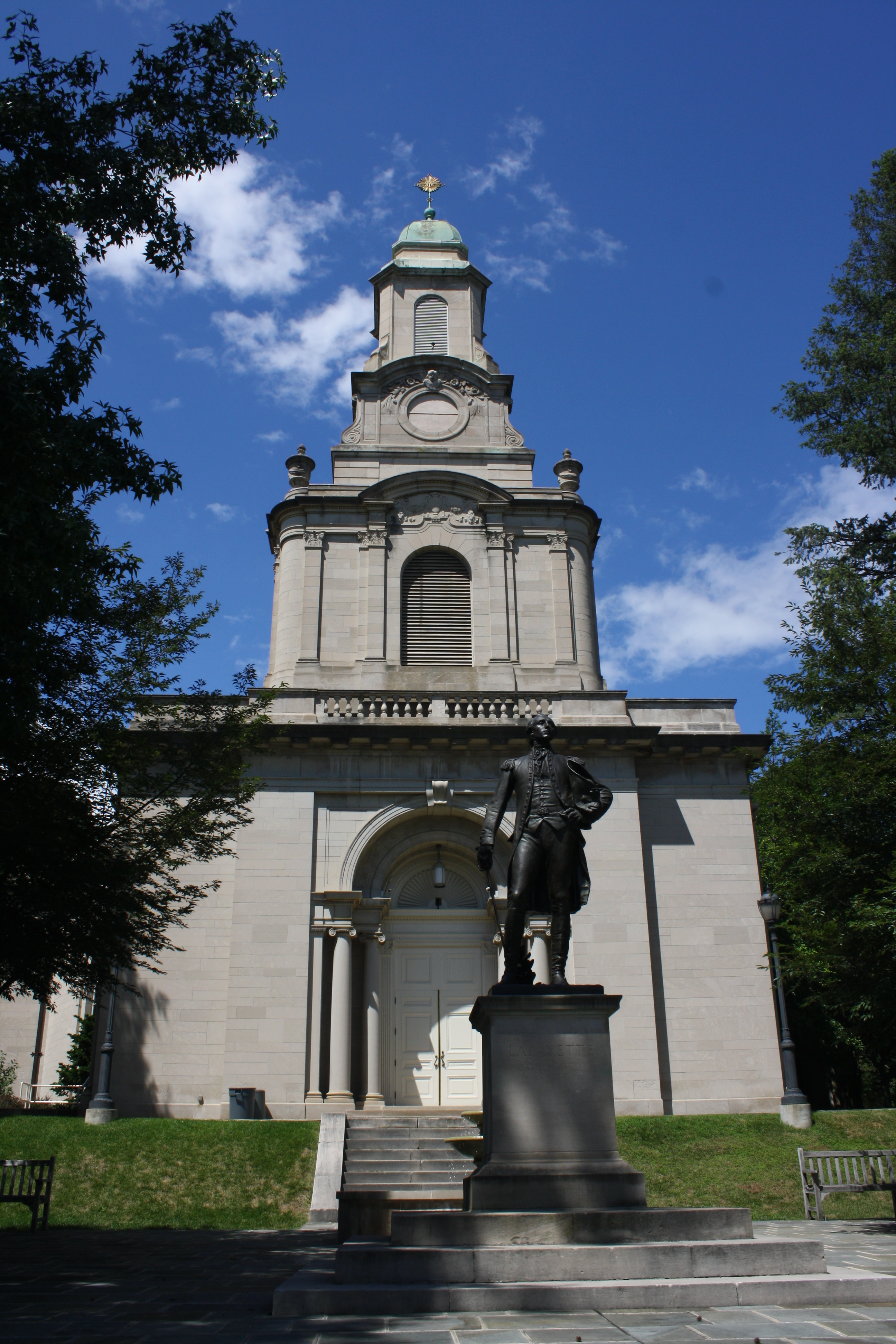 Lafayette College, Colton Chapel, College Hill, Easton, PA.